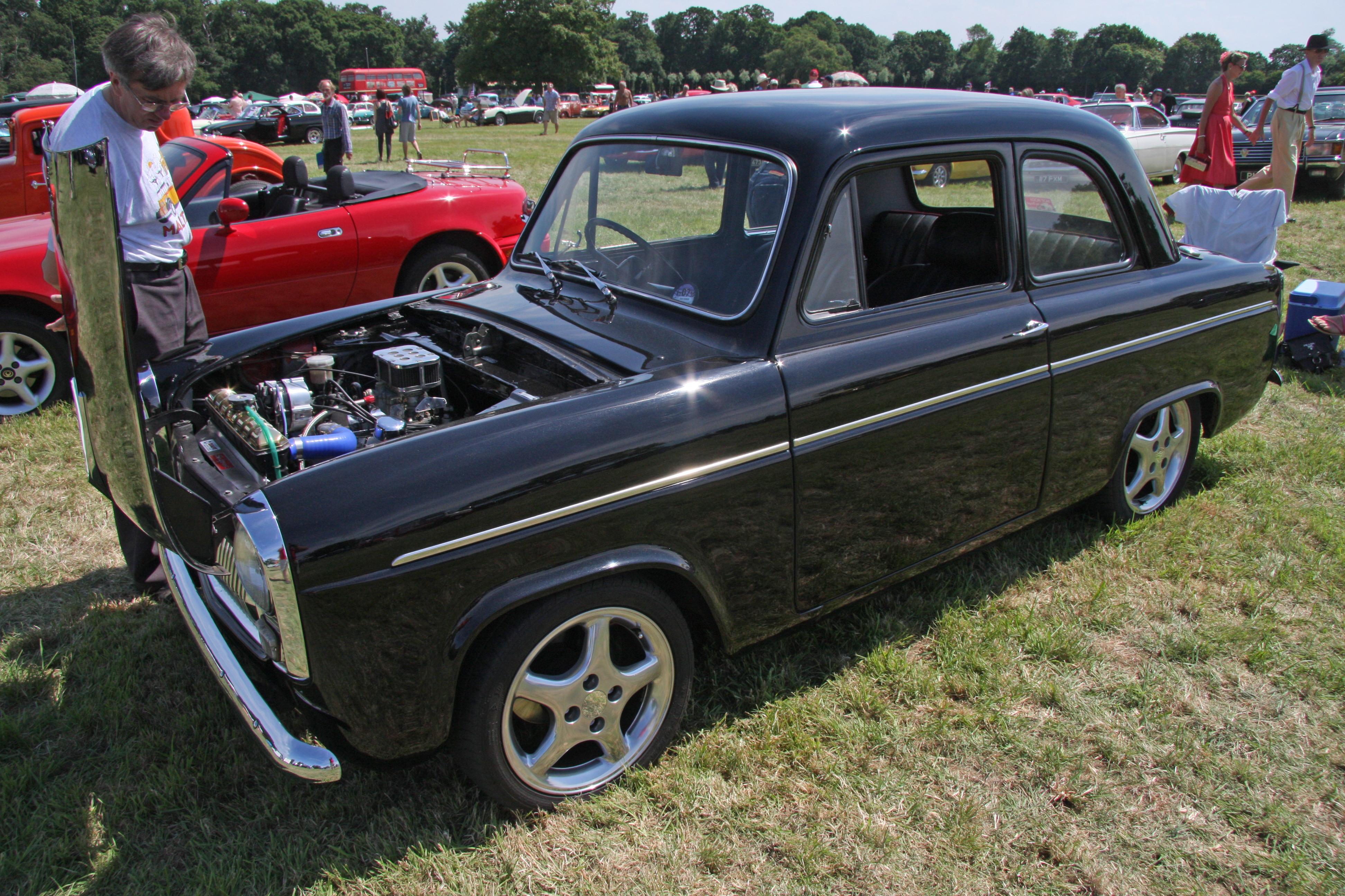 Ford Popular 100E